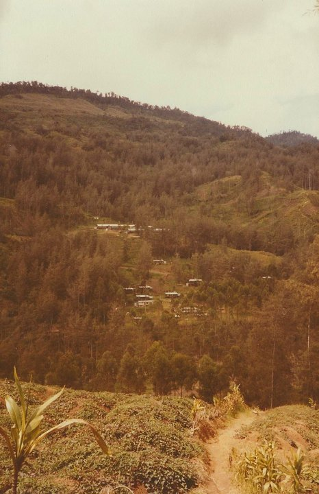 Anditale High School in Ambum Valley of Enga Province, north of Wabag